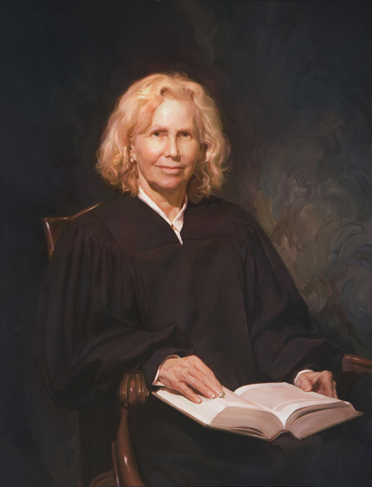 Judge Maxine Chesney official portrait art by Scott Johnston, oil on linen, 36x28-inches, collection of the United States District Court of Northern California